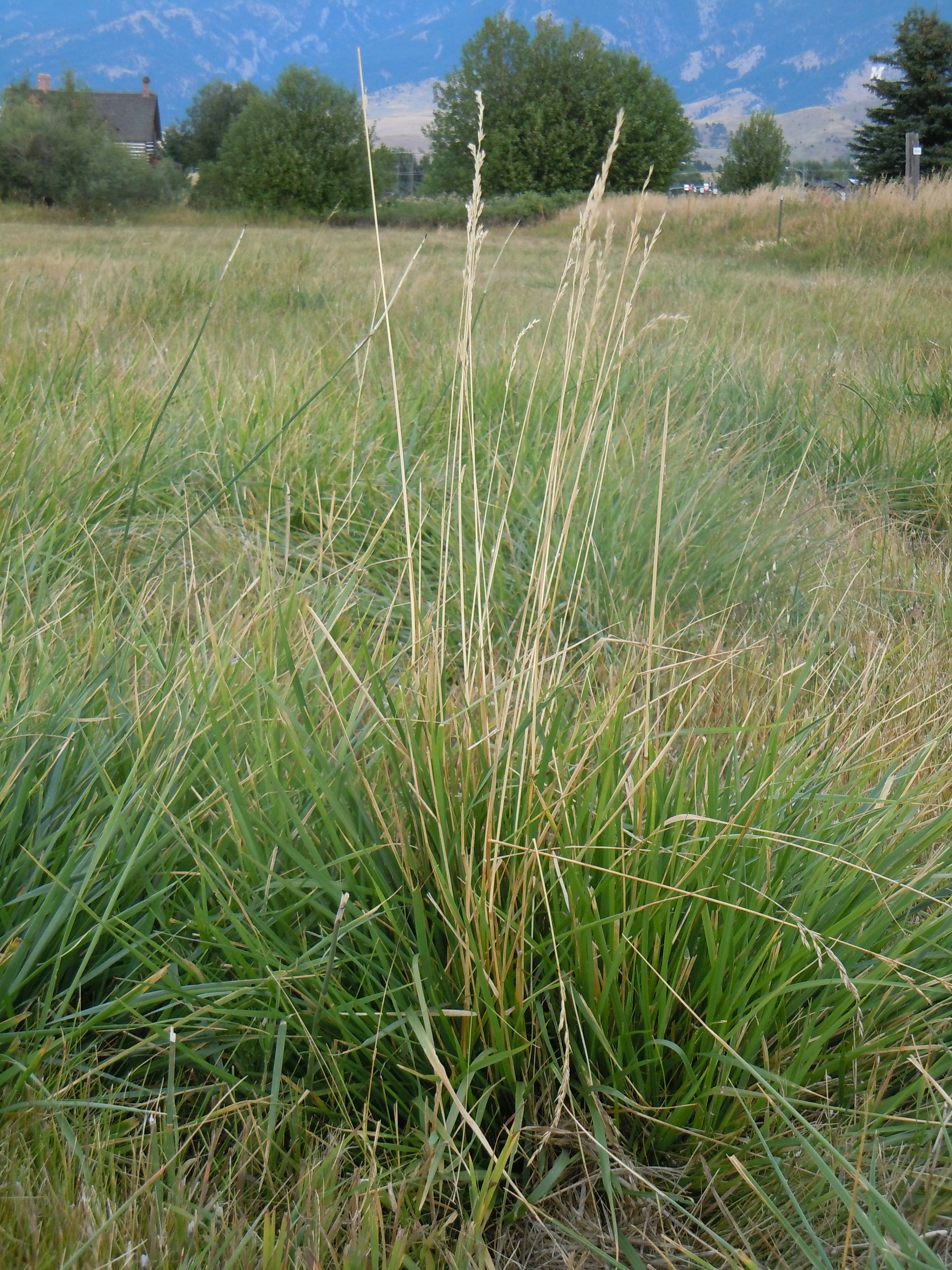 This coarse robust bunchgrass has rebounded much more after late summer mowing compared to other grasses growing with it: Bromus inermis (smooth brome), Agropyron repens (quackgrass), and Poa pratensis (Kentucky bluegrass).